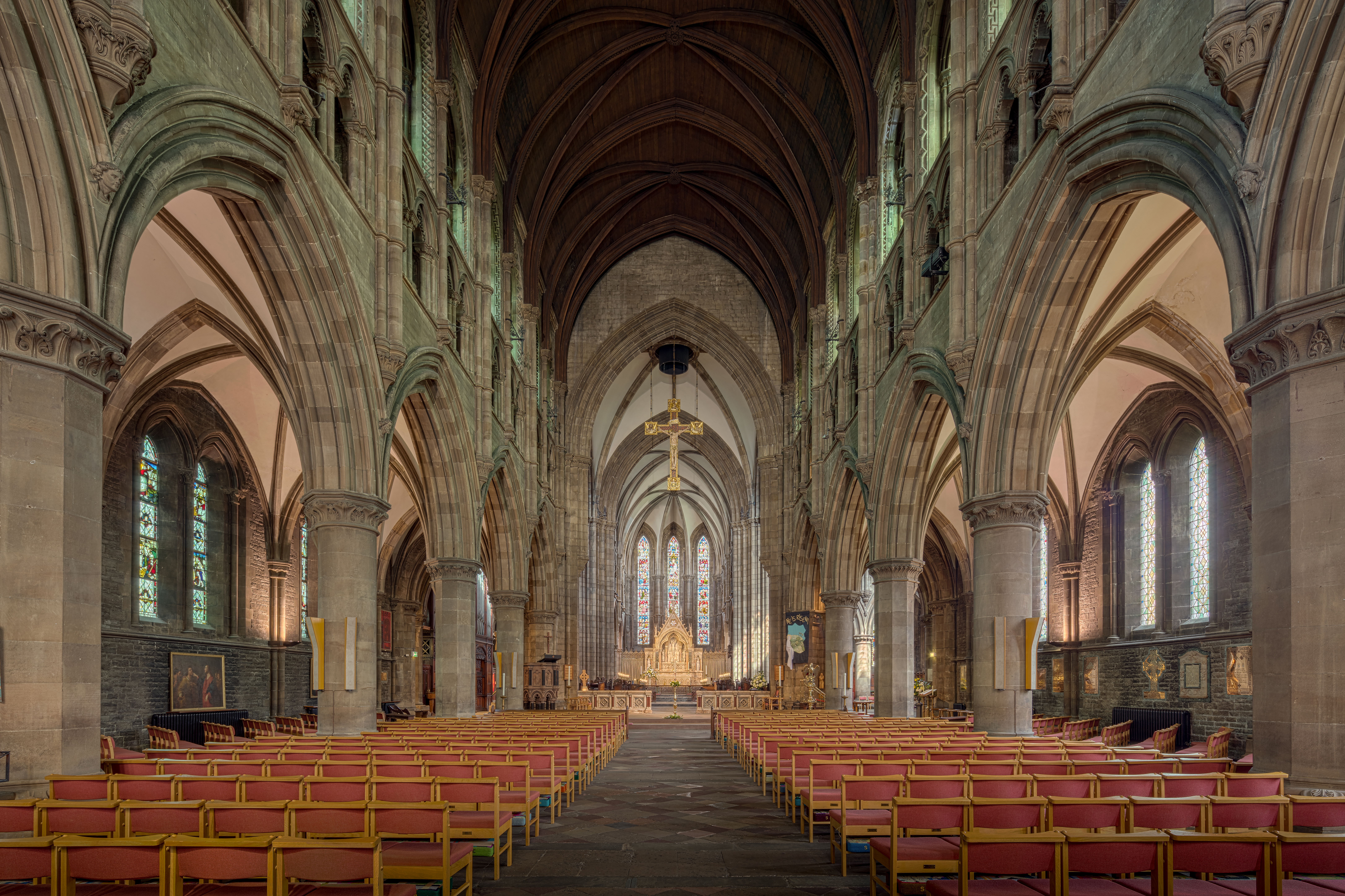 Here is an hdr photograph taken from the nave inside St Marys Cathedral. Located in Edinburgh, Scotland, UK.